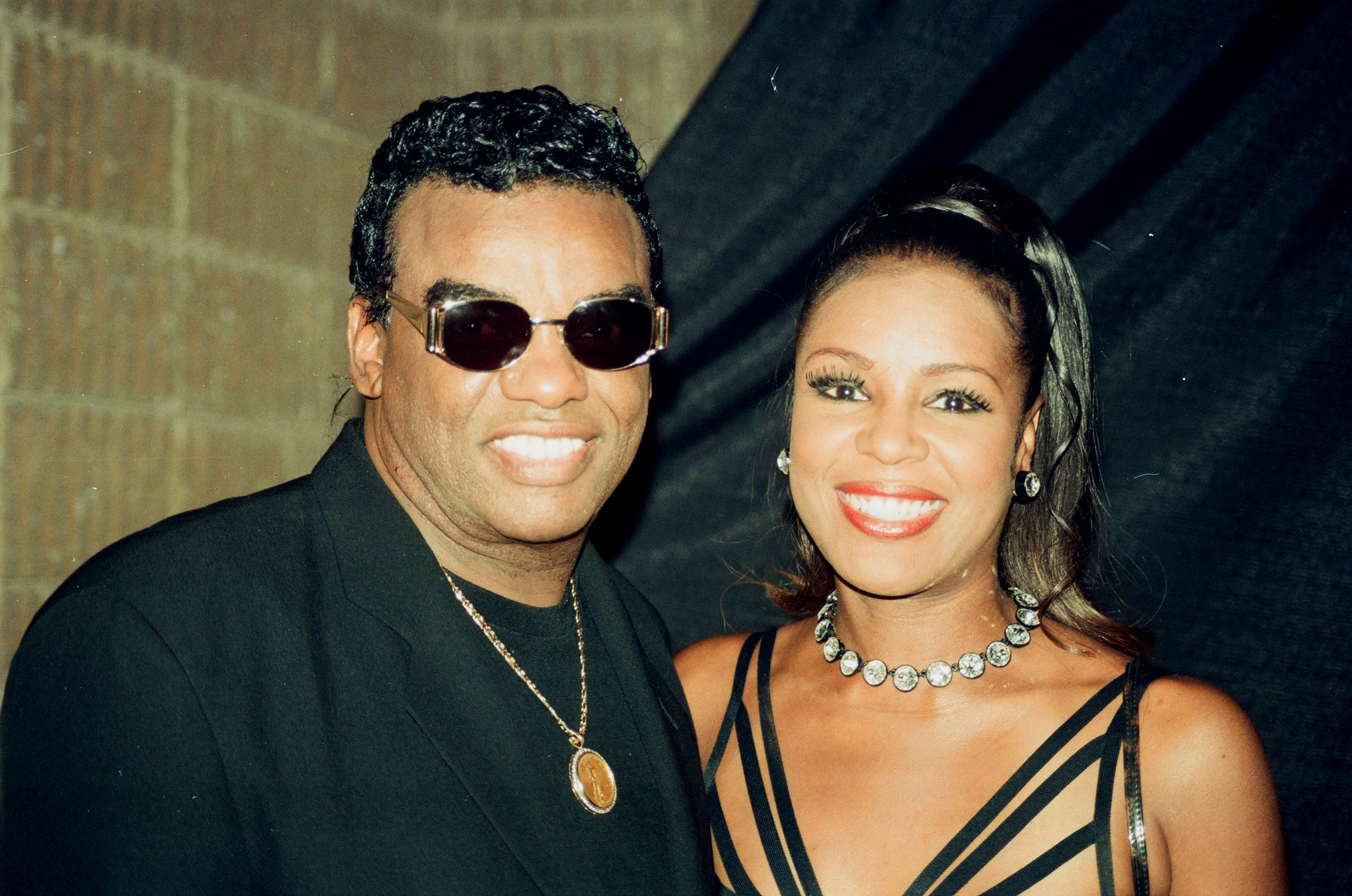 little dust Wash D.C. 1996